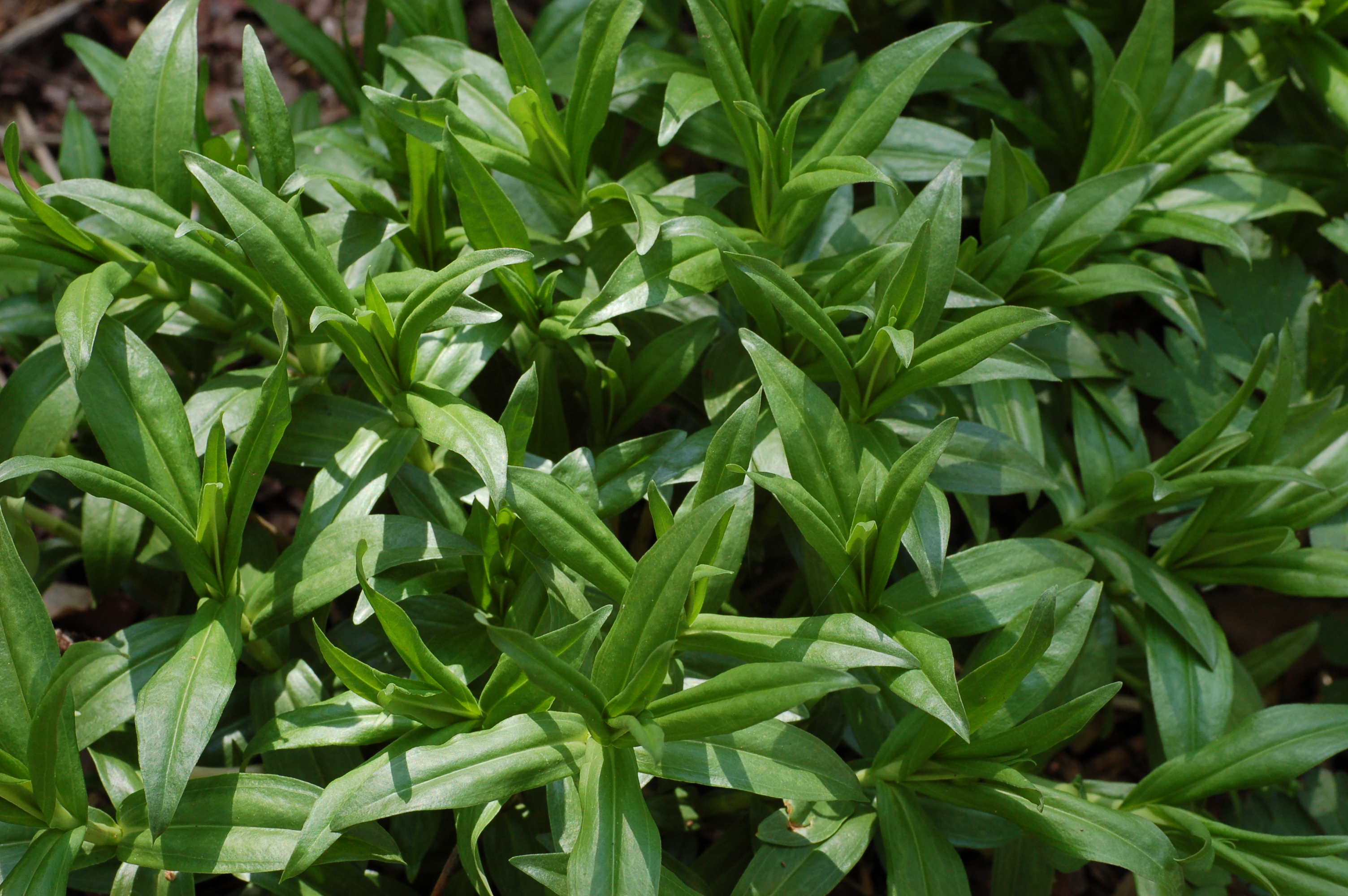 Photograph of the Bottle Gentianen (Gentiana clausa en ). Photo taken at the Mt. Cuba Center where it was identified.